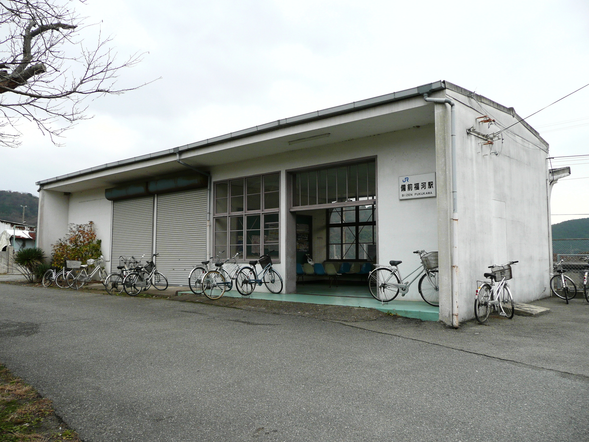 West Japan Railway Ako Line Bizen-Fukukawa Station. / 赤穂線備前福河駅